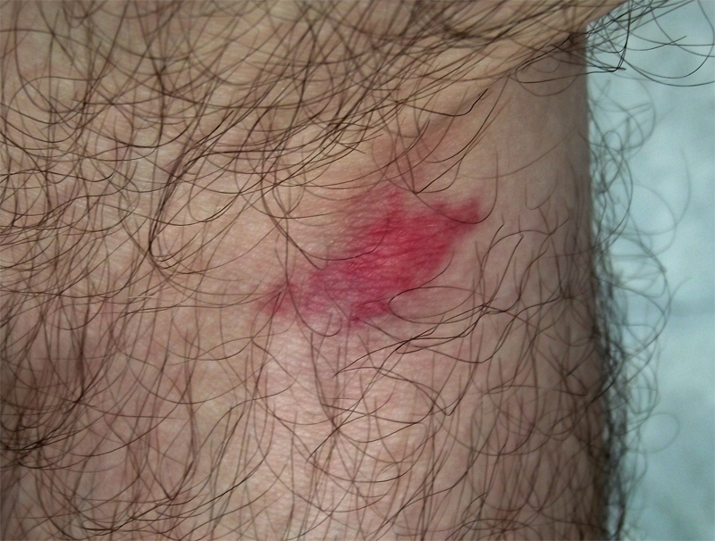 A bite of a horse-fly.